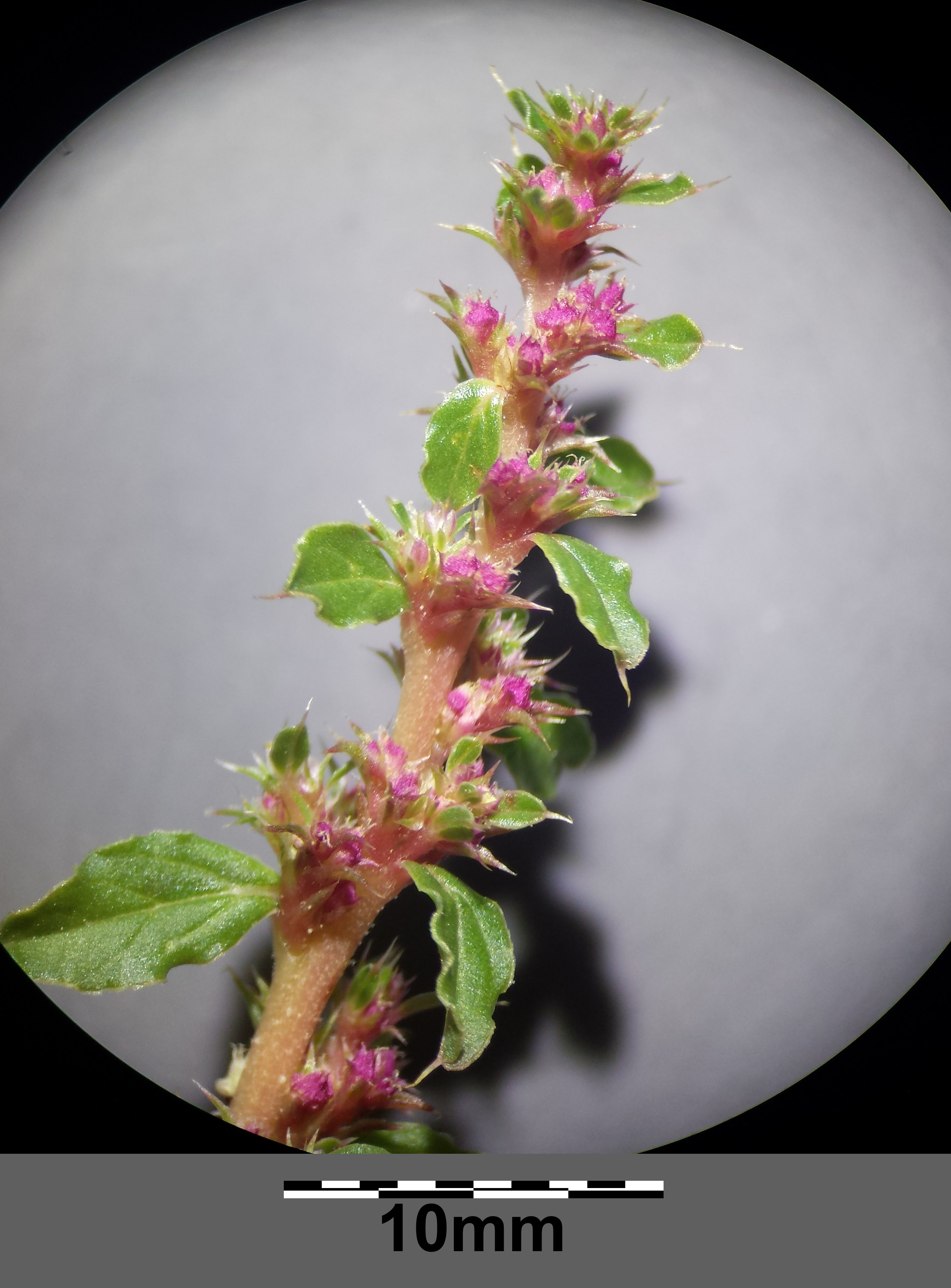 Infructescence Taxonym: Amaranthus albus ss Fischer et al. EfÖLS 2008 ISBN 978-3-85474-187-9 Location: Floridsdorf rail station, Vienna-Floridsdorf - ca. 160 m a.s.l. Habitat: ruderal area